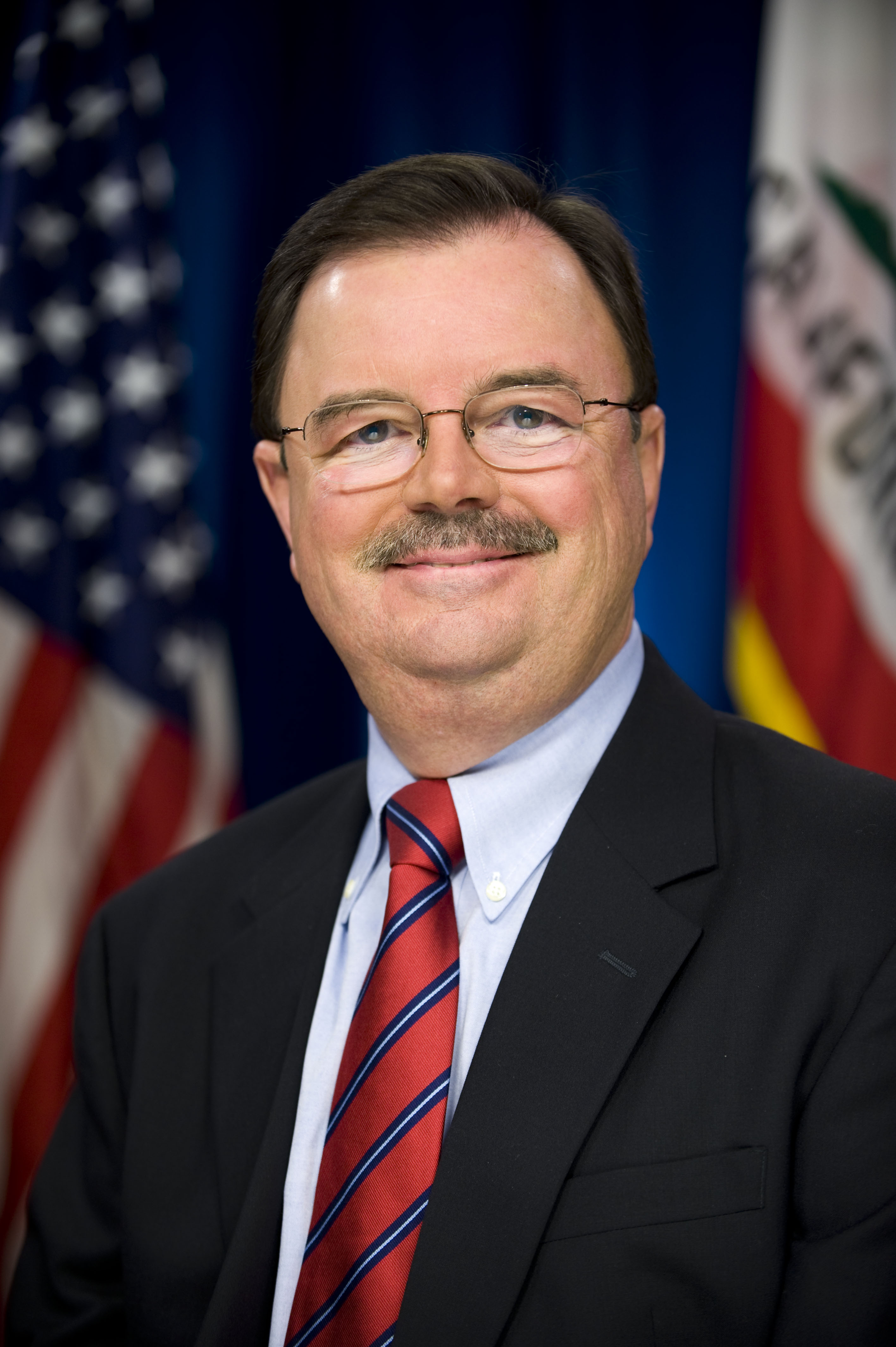 Assemblyman Rich Gordon